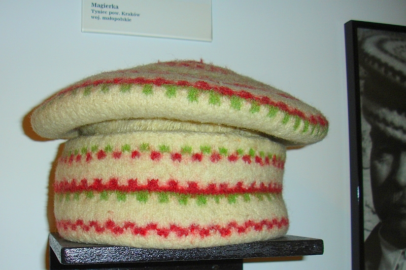 magierka